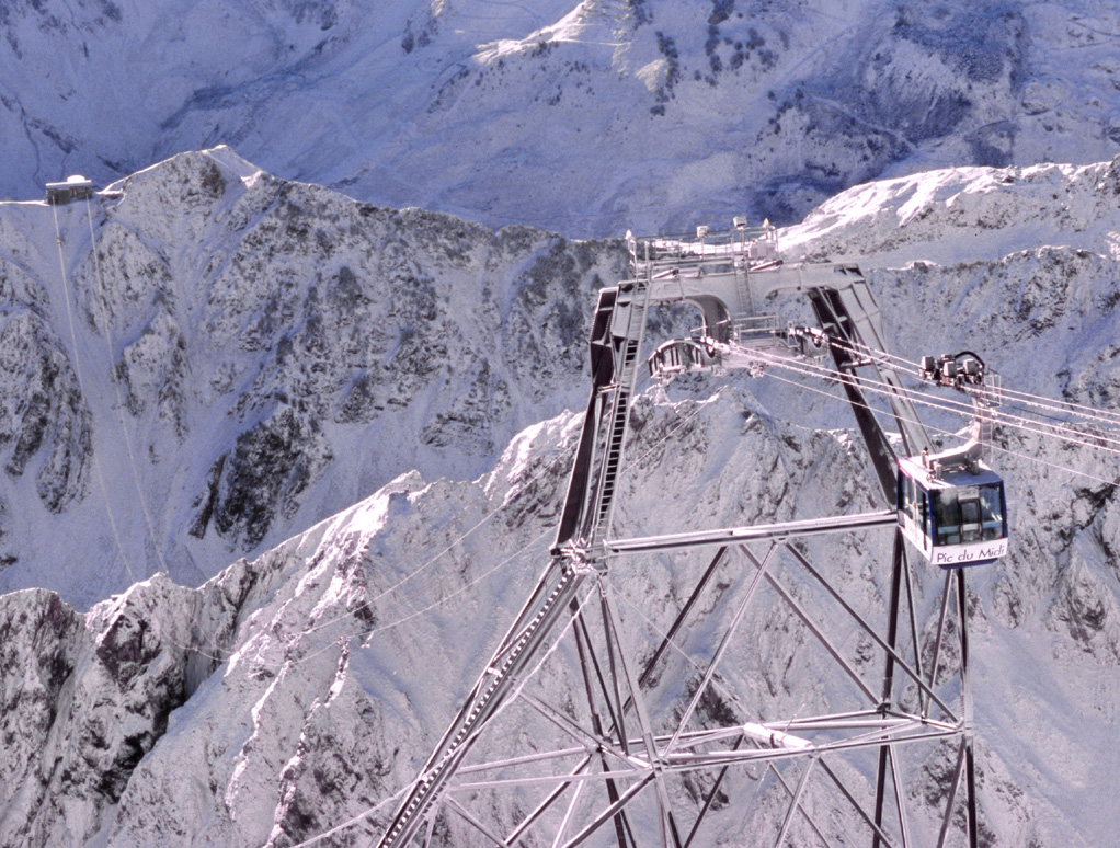 Cableway, Pic du Midi, Hautes-Pyrenees, France